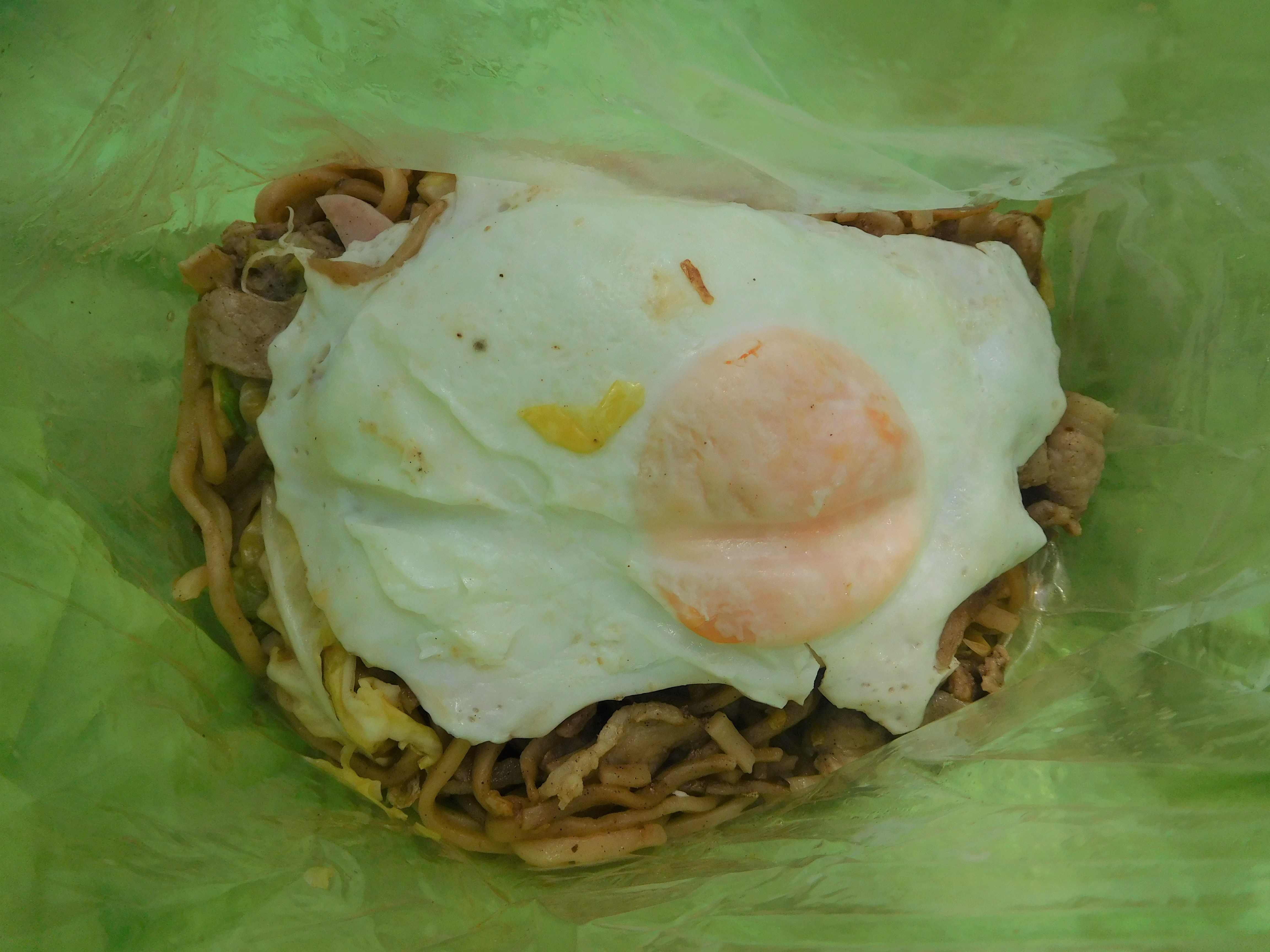 This is Utsunomiya Yakisoba cooked by Ishidaya Yakisoba Shop in Utsunomiya, Tochigi, Japan.